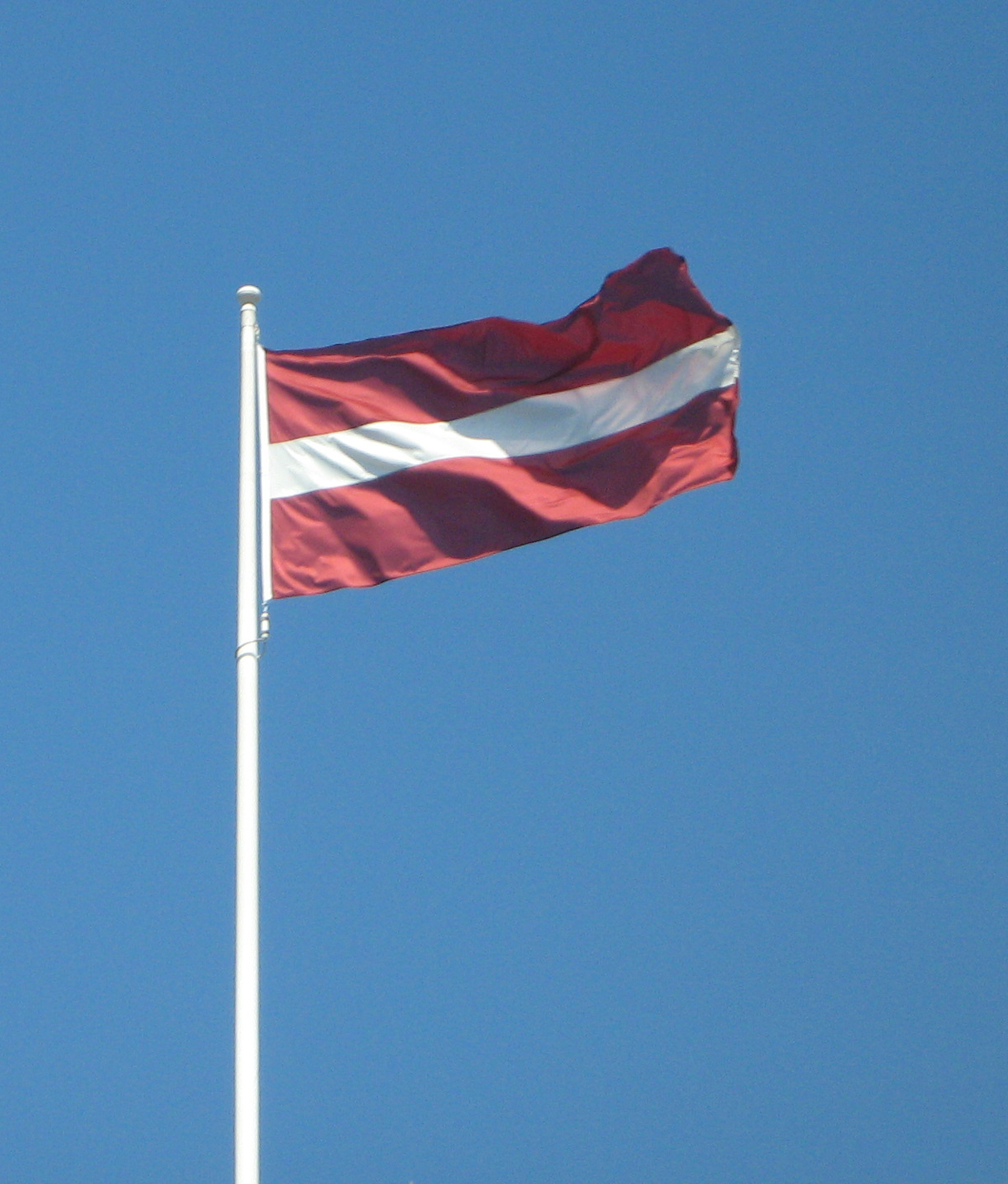 Flag of Latvia